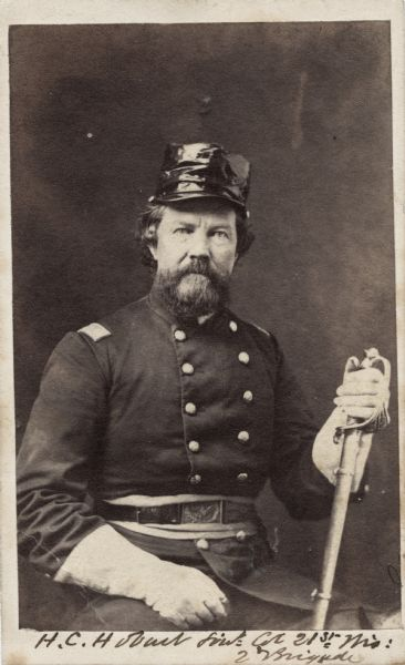 Photograph of Colonel Harrison C. Hobart, c. 1864